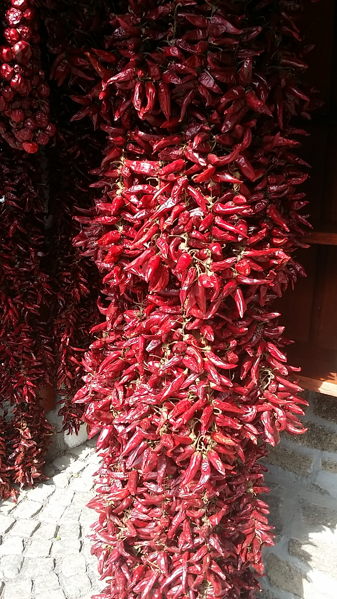 Dried Hungarian paprika on string in Tihany